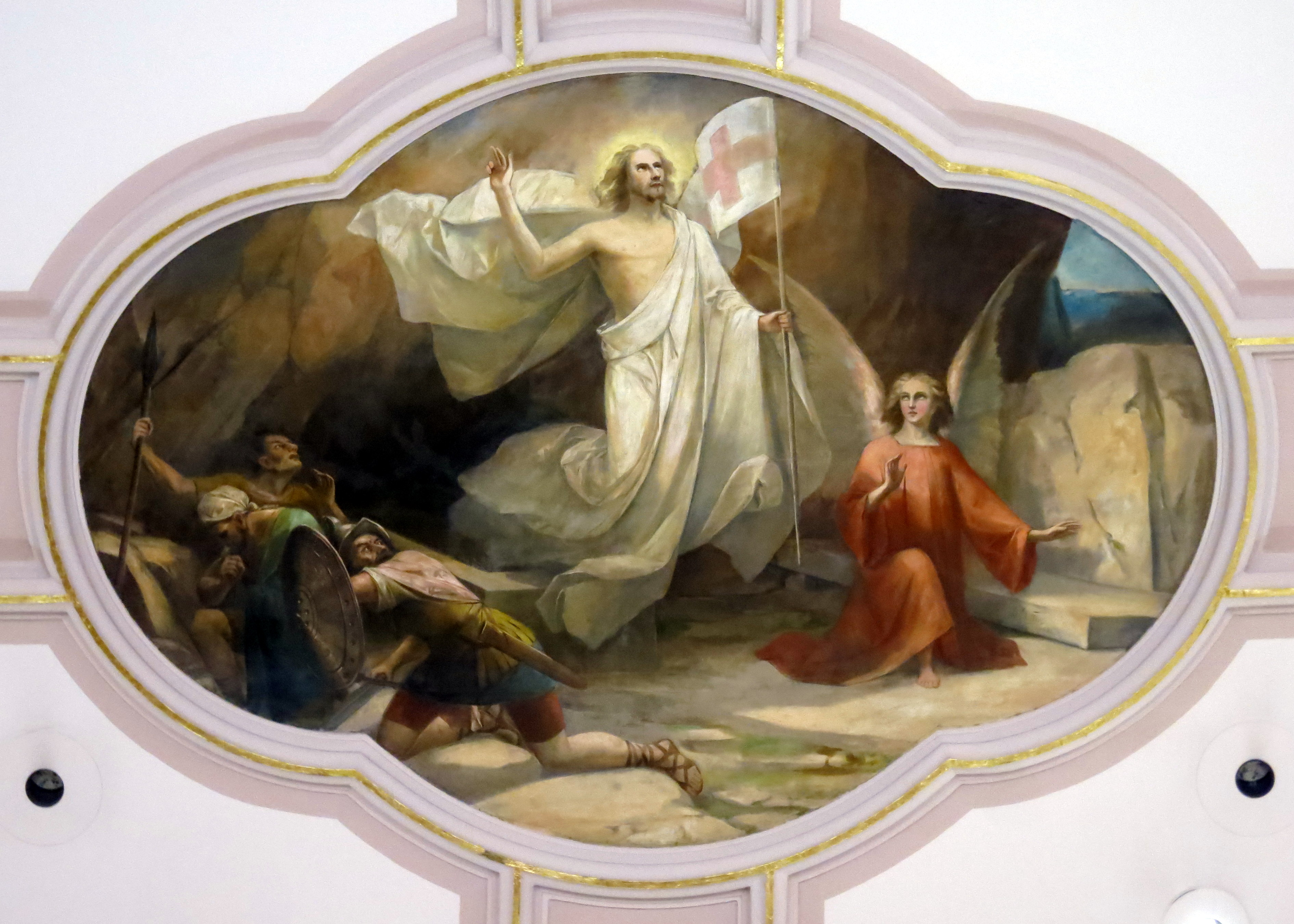 Saint Augustine Catholic Church (Minster, Ohio) - ceiling freso, Resurrection of the Lord